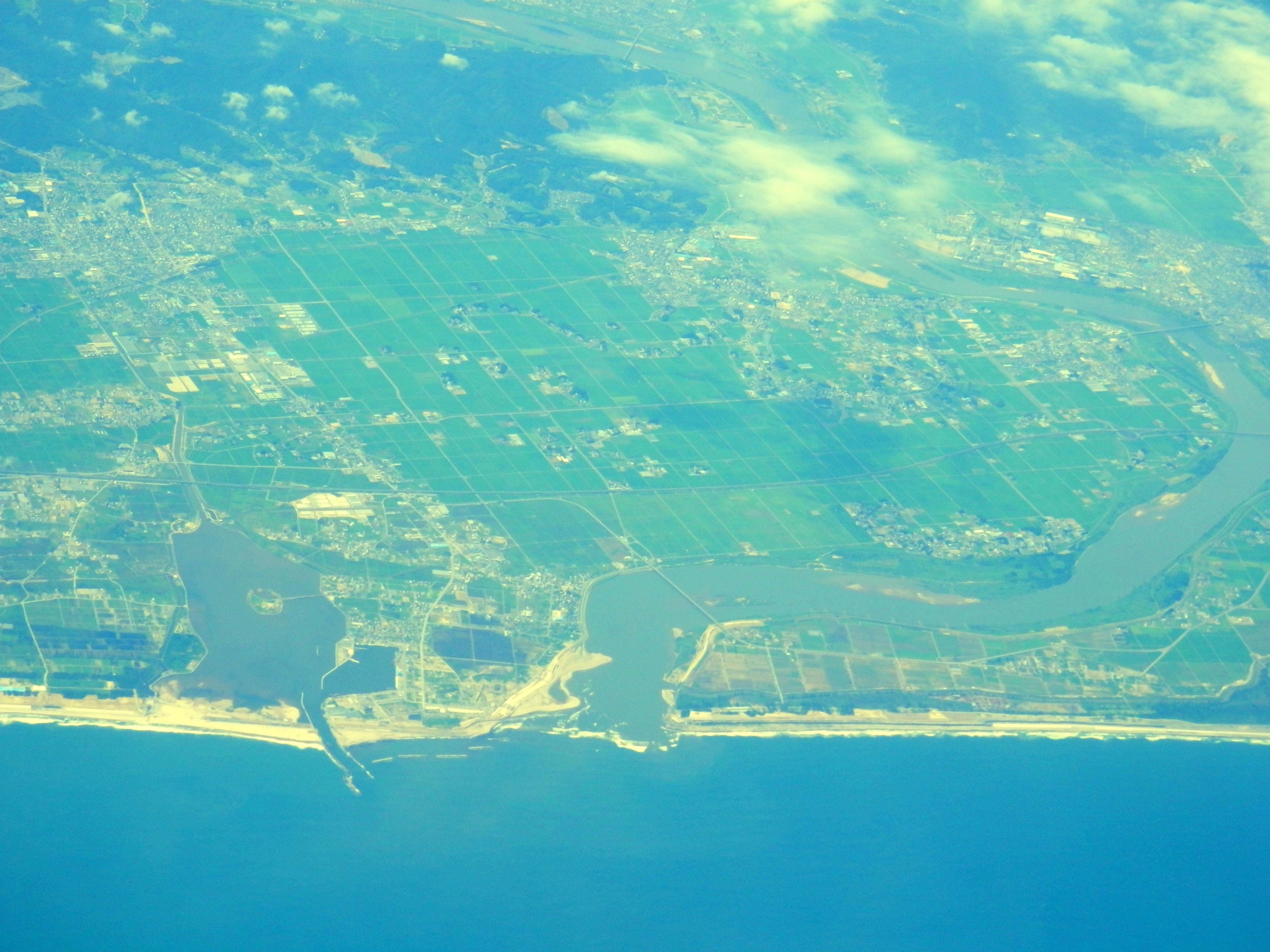 Watari, Miyagi, Lake Torinoumi and the Abukuma River mouth seen from an aeroplane.